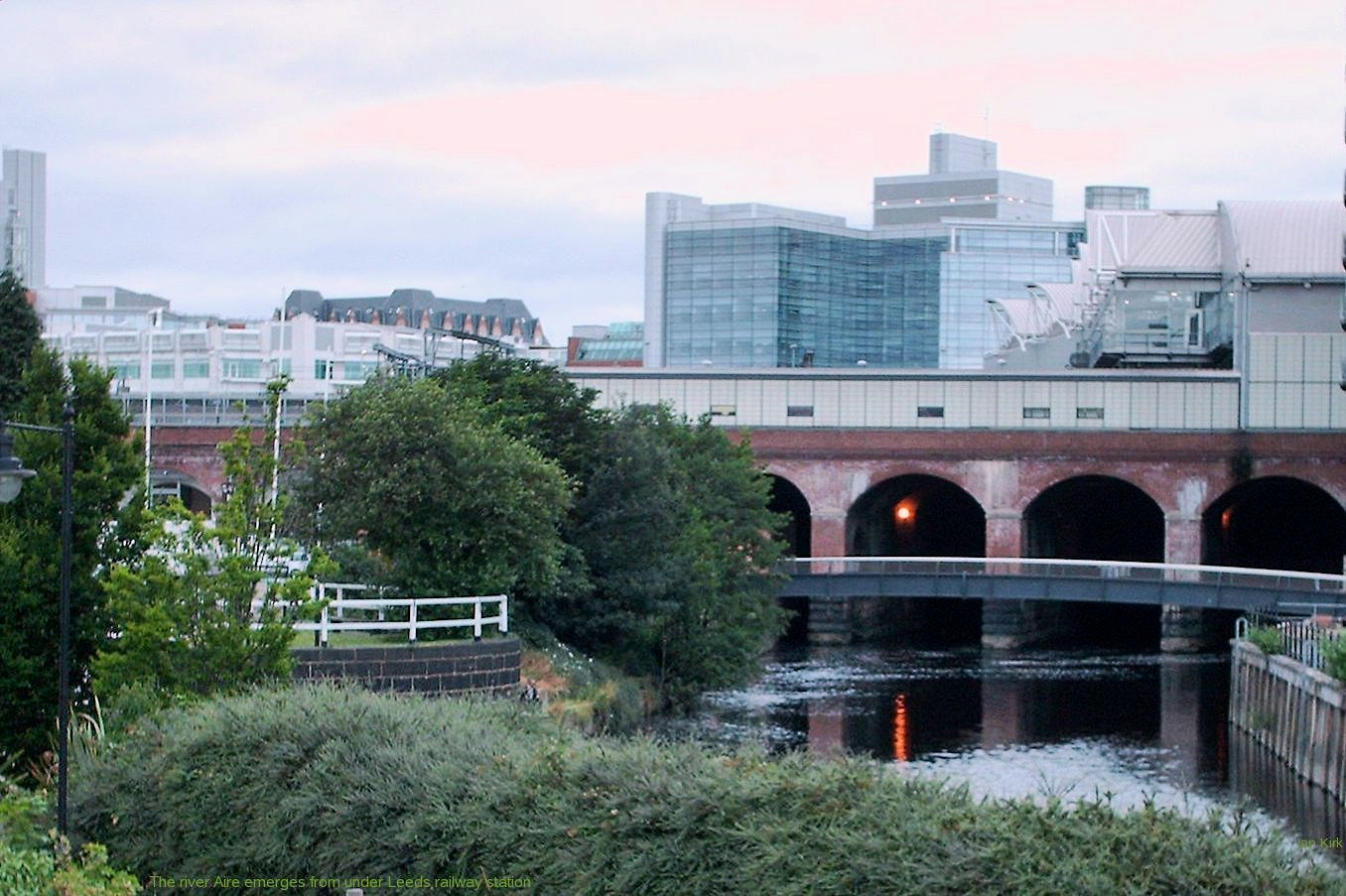 Leeds railway station, West Yorkshire, England. The river Aire runs under the station.